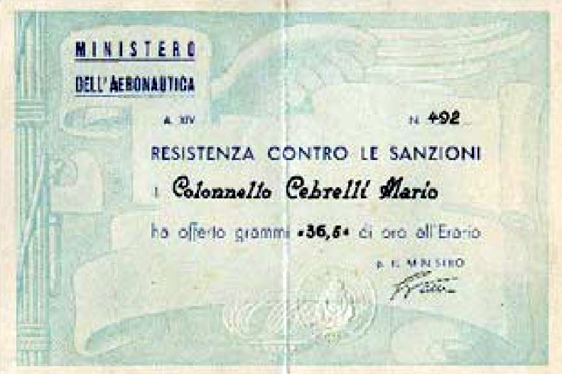 document stating gold contribution against sanzioni